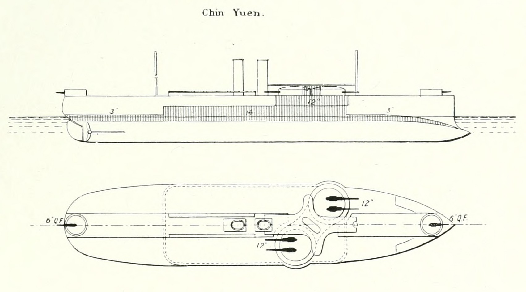 Sketch of the Chinese battleship Dingyuan (Ting Yuan) class, later Japanese Chinyen. Note, that main turrets were in fact placed on opposite sides.